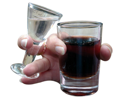 Correct Position of Fingers when holding Lüttje Lage, the typical Hannover Drink